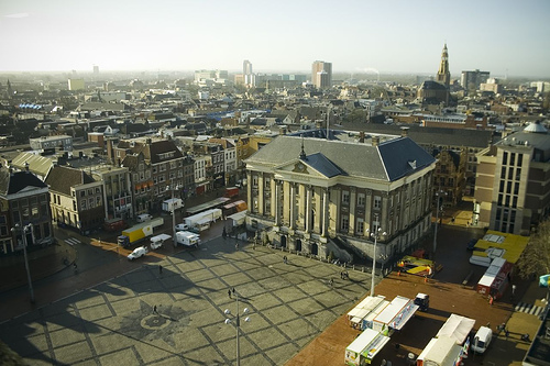 View of Grote Markt, Groningen, from the Martinitoren.